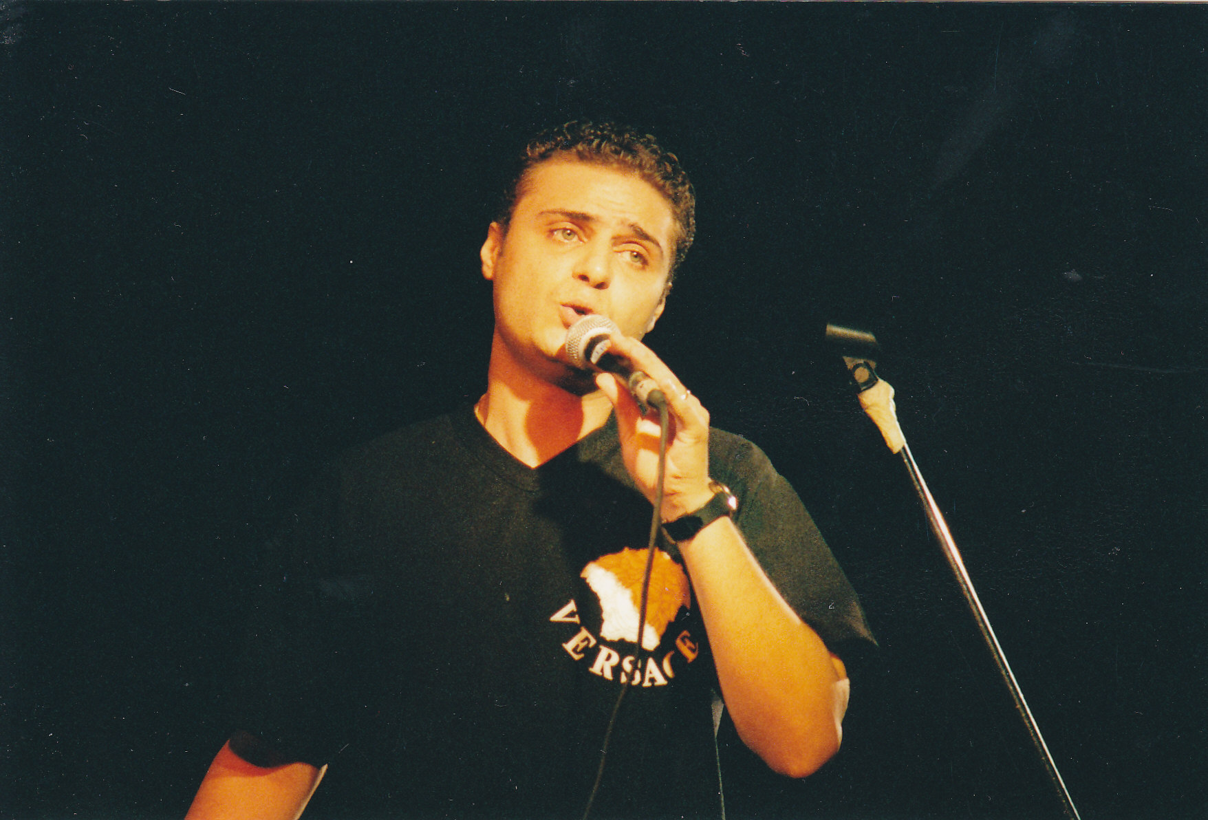 Nino Porzio al Girofestival nel 2001